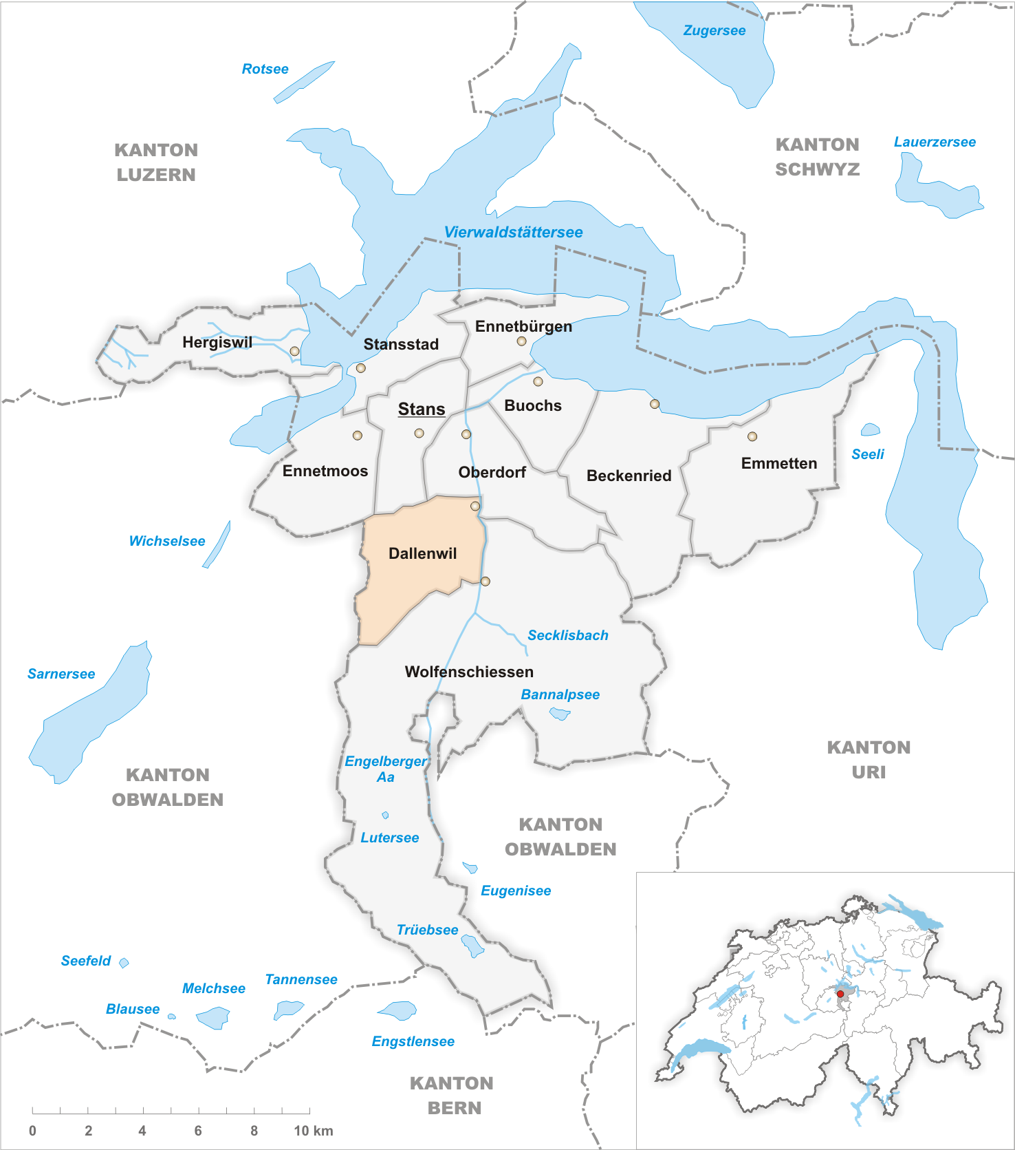 Municipality Dallenwil